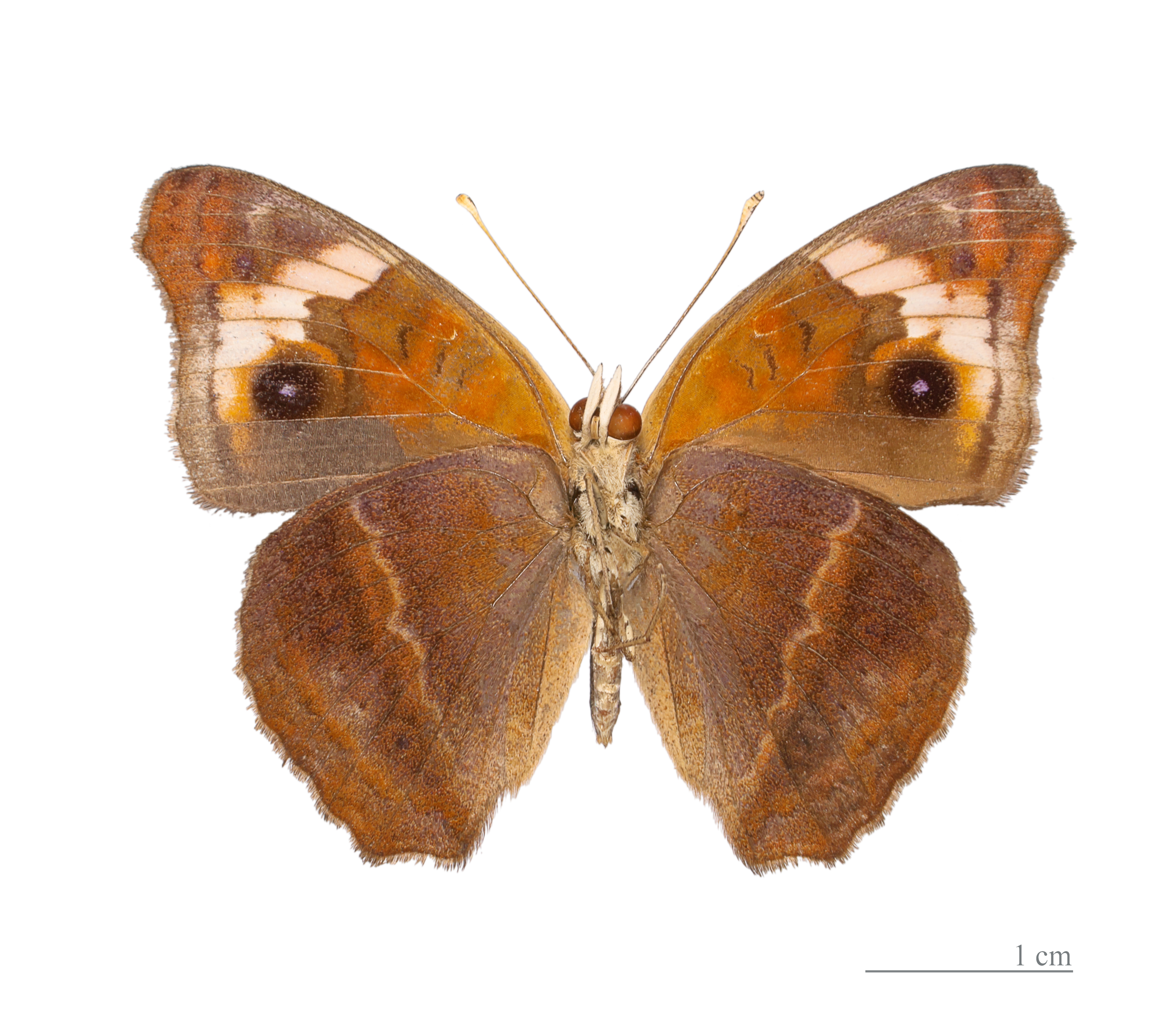 ♂ - △ Ventral side Locality : Le Larivot, Cayenne, French Guiana.